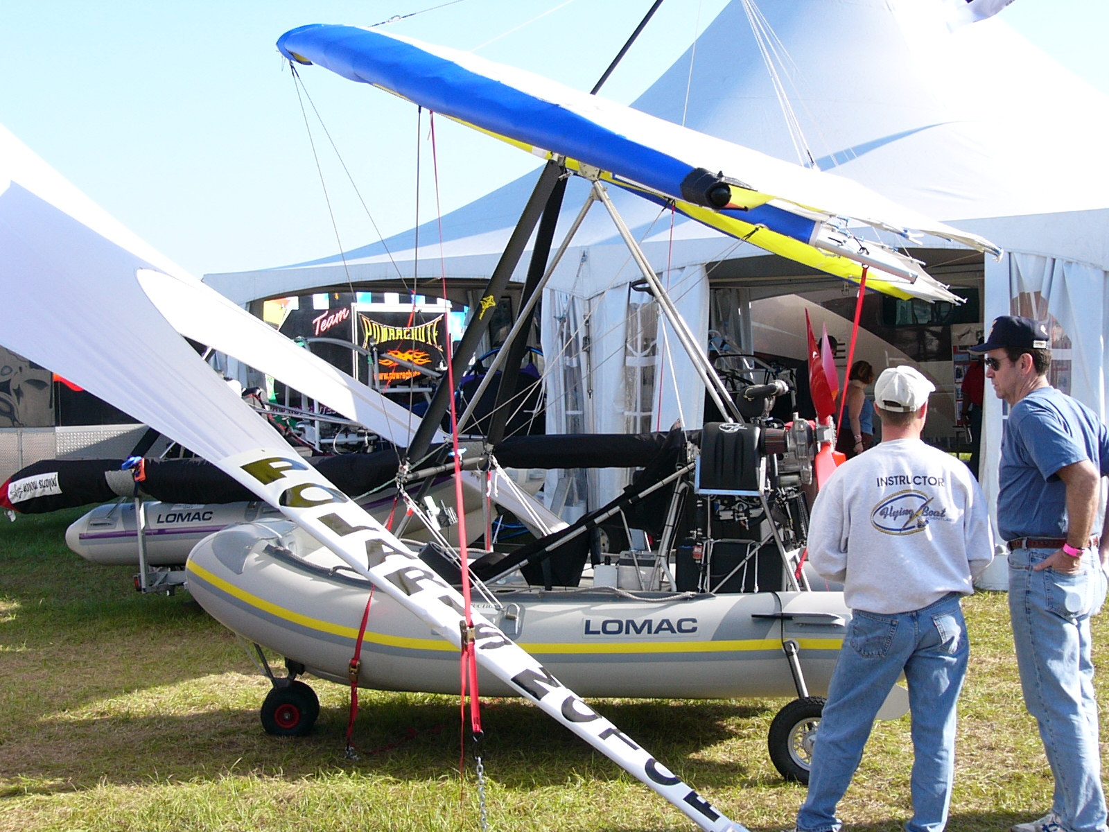 Polaris AM-FIB Flying Inflatable Boat seen at Sun 'n Fun 2004